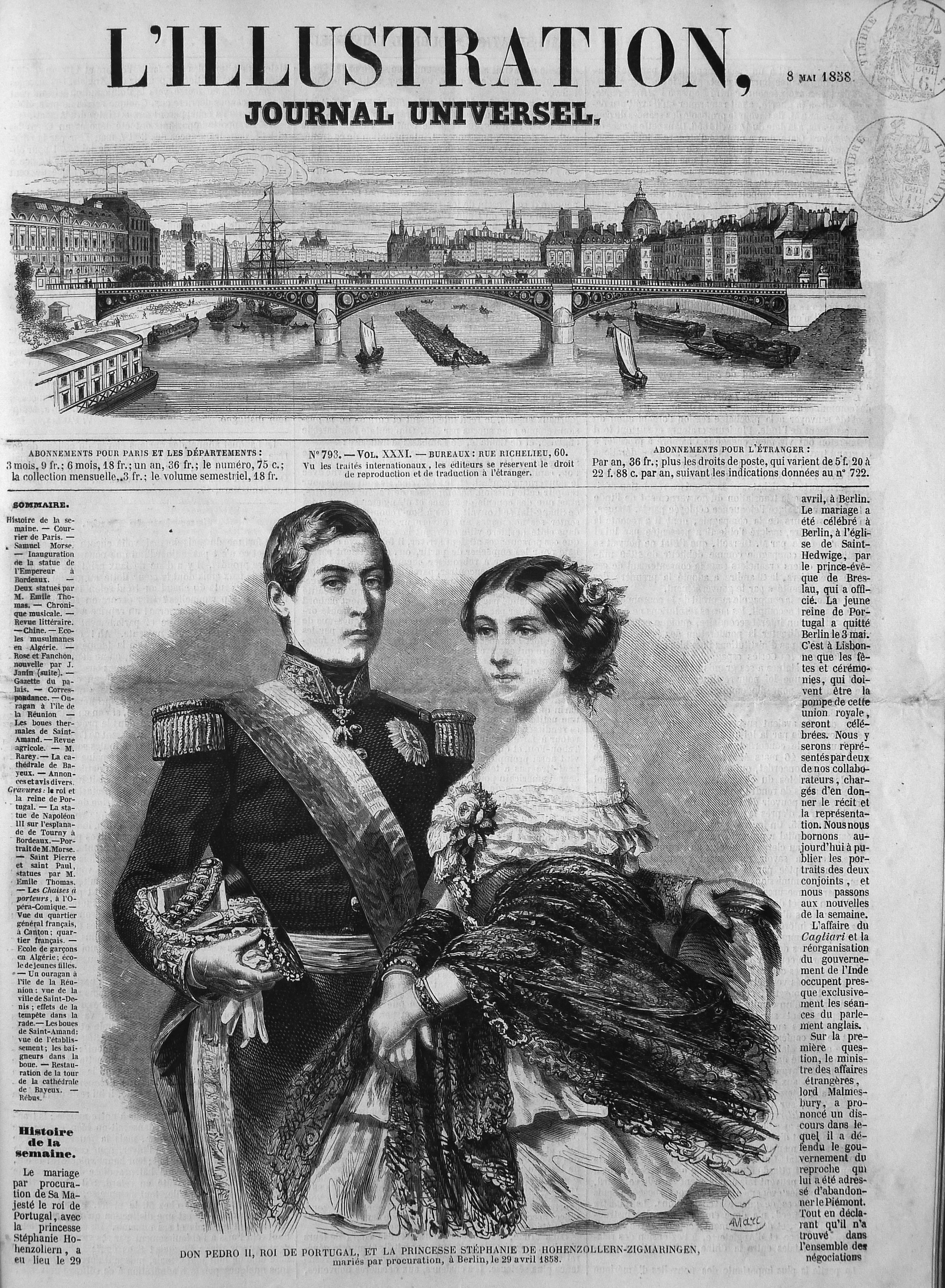 "L'Illustration" (french newspaper)